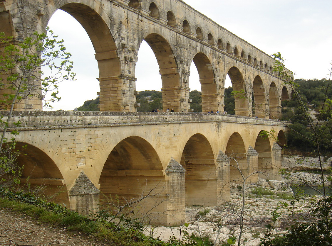 The Pont du Gard, view from the south-east.